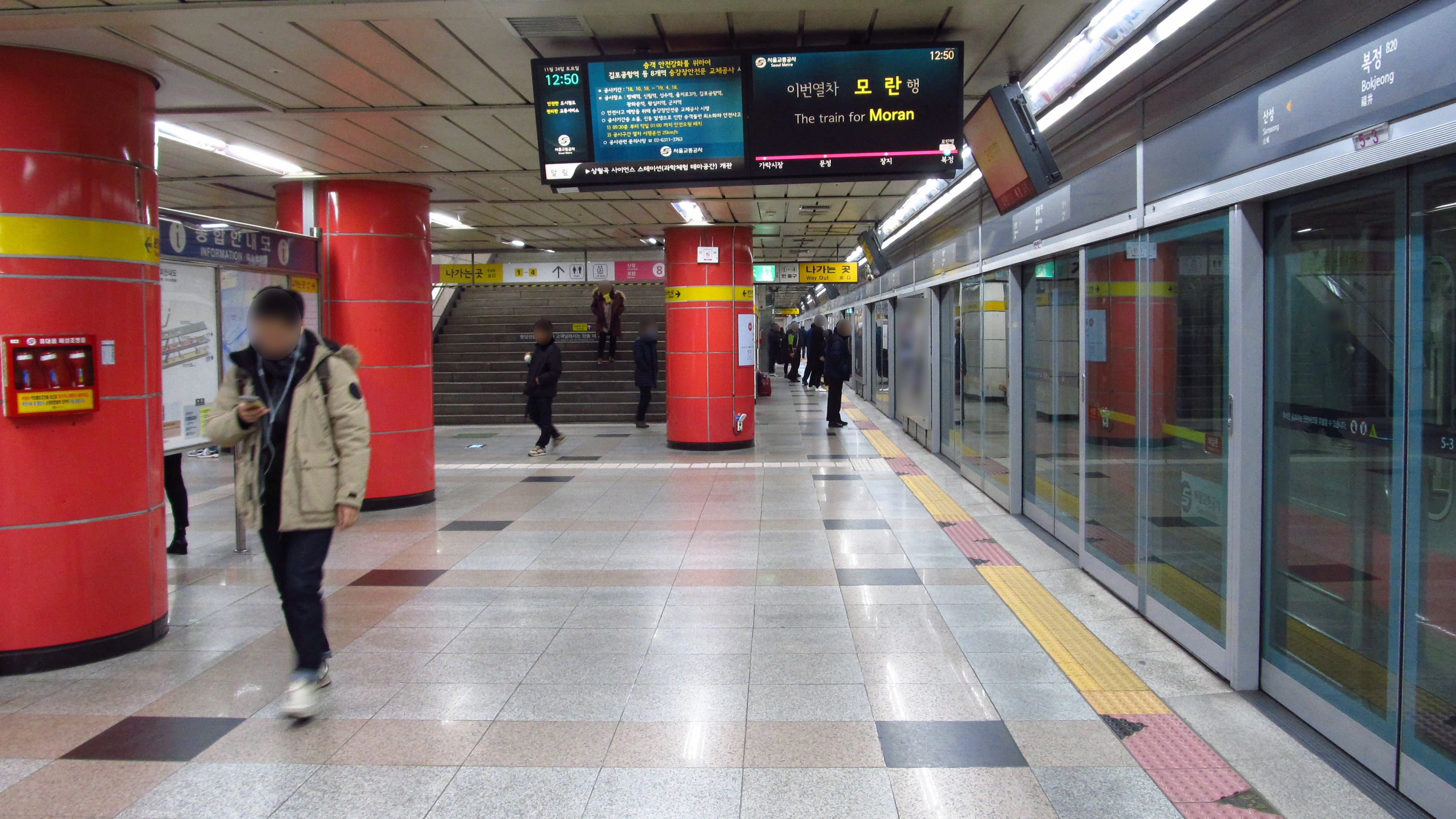 The platform at Bokjeong Station on Seoul Subway Line 8 in Songpa-gu, Seoul, Republic of Korea(South Korea)